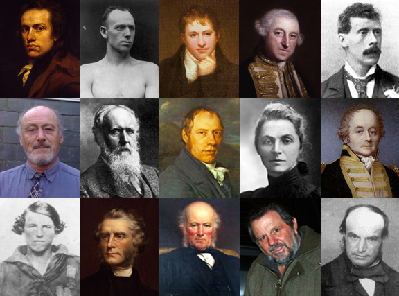 A montage of 15 notable people from Cornwall, England. Top row, left to right: John Opie - Cornish historical and portrait painter. Robert Fitzsimmons - Cornish boxing champion. Humphry Davy - Cornish chemist and inventor. Edward Boscawen - British admiral and politician from Cornwall. Arthur Quiller-Couch - a Cornish writer. Middle row, left to right: Craig Weatherhill - Cornish author. Henry Jenner - Cornish scholar, Celtic cultural activist, and the chief originator of the Cornish language revival. Richard Trevithick - British inventor and mining engineer Emily Hobhouse - British welfare campaigner William Bligh - Royal Navy officer and a colonial administrator. Bottom row, left to right: Joseph Trewavas - recipient of the Victoria Cross born in Cornwall John William Colenso - Anglican bishop, mathematician, theologian, Biblical scholar and social activist born in Cornwall. William Pengelly - Cornish geologist, archaeologist and Biblical chronologer. Jethro - Cornish stand-up comedian. John Couch Adams - Cornish mathematician and astronomer.